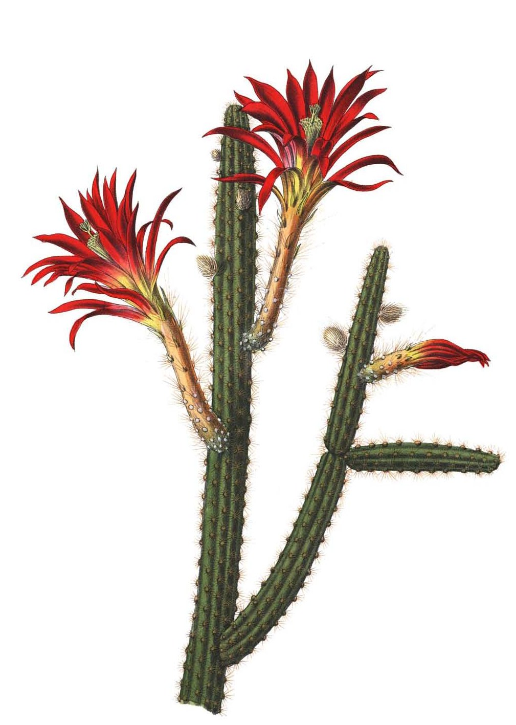 Disocactus martianus